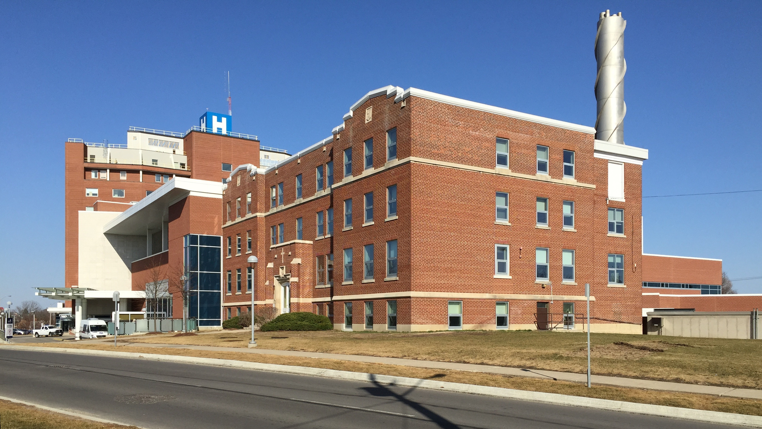 St. Mary's General Hospital in Kitchener, Ontario.